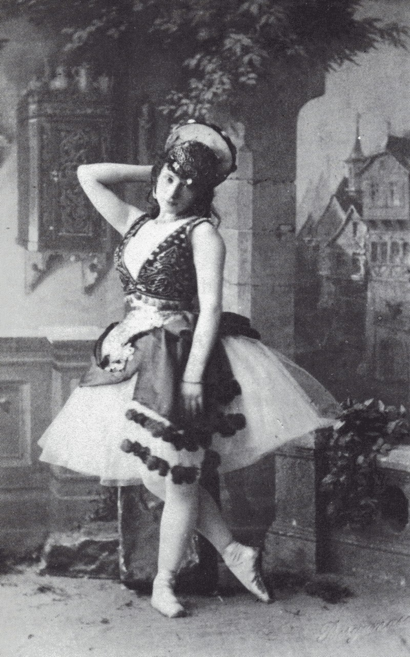 Photo of the Italian ballerina Virginia Zucchi (1847-1930) costumed for the title role of the choreographer Marius Petipa's (1818-1910) revival of the choreographer Jules Perrot (1810-1892) and the composer Cesare Pugni's (1803-1870) ballet La Esmeralda, 1886.